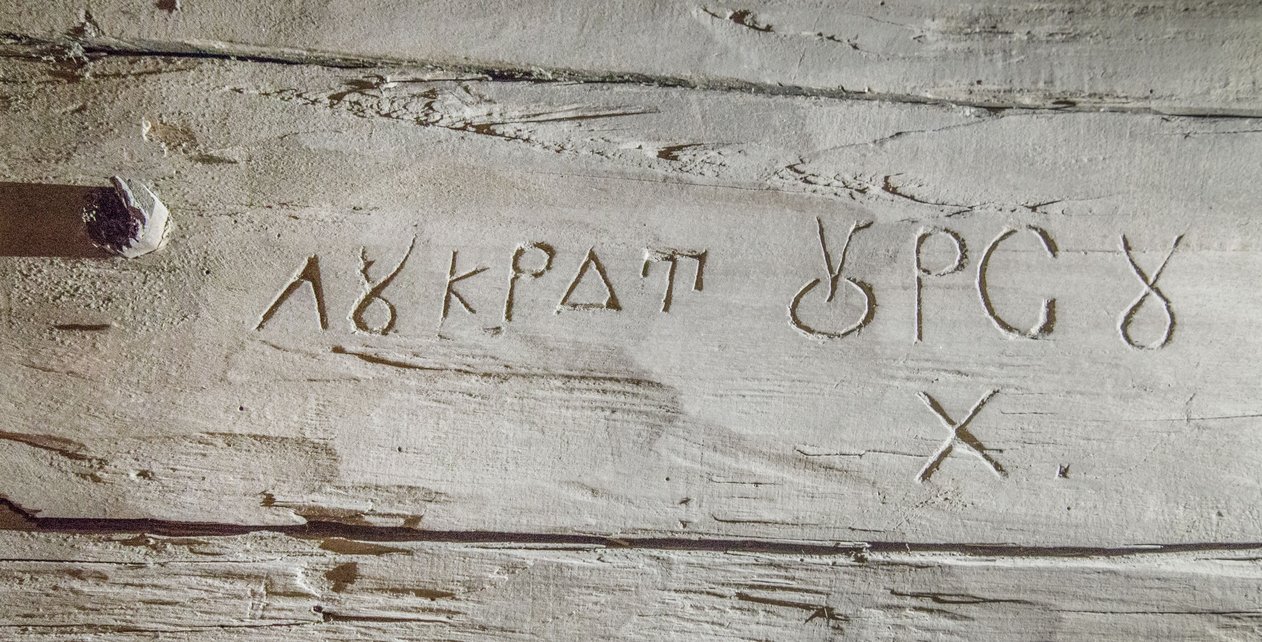 Wooden church in Cizer, Romania, signature of a master carpenter.